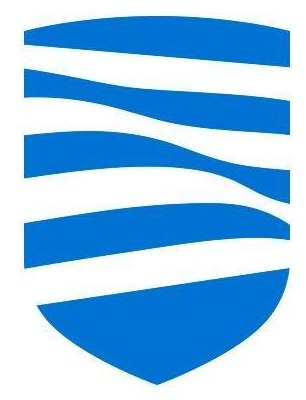 Tallinn Municipal Police Department